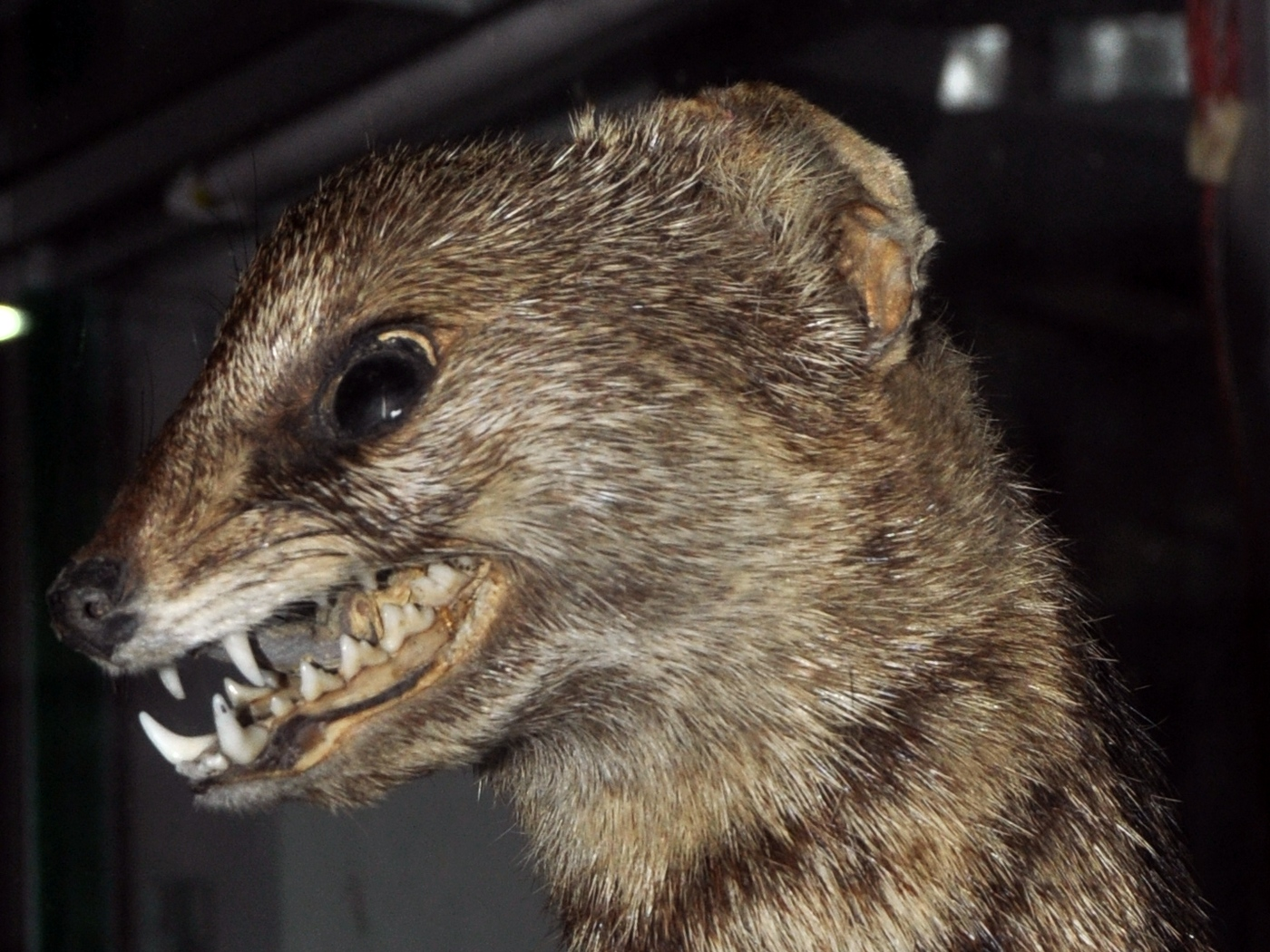 Taxidermy of Viverricula malaccensis from Java. Collection of Gunung Gede-Pangrango Nat. Park, Cibodas, West Java. Head close up.